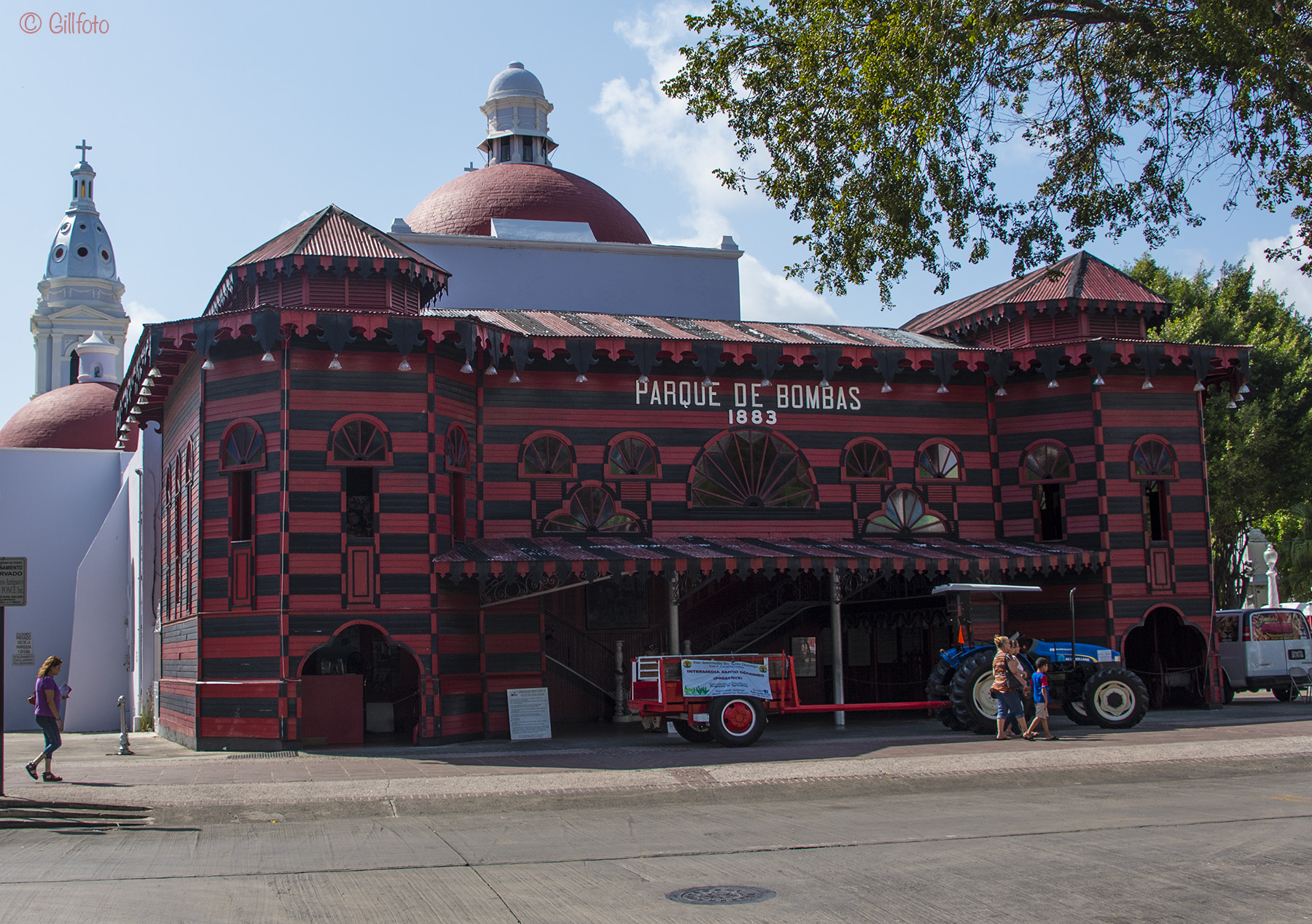 Parque de Bombas,Ponce, Firehall Bombas